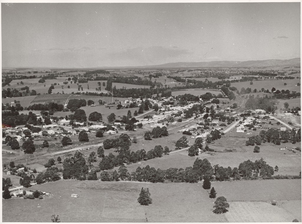 Aerial view of Drouin, Victoria, during World War II.